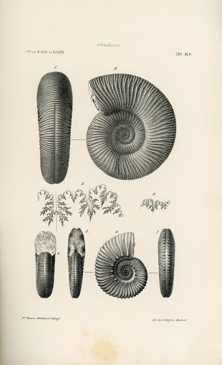 Fossils plate from Lucas Mallada published in the Boletín de la Comisión del mapa Geológico